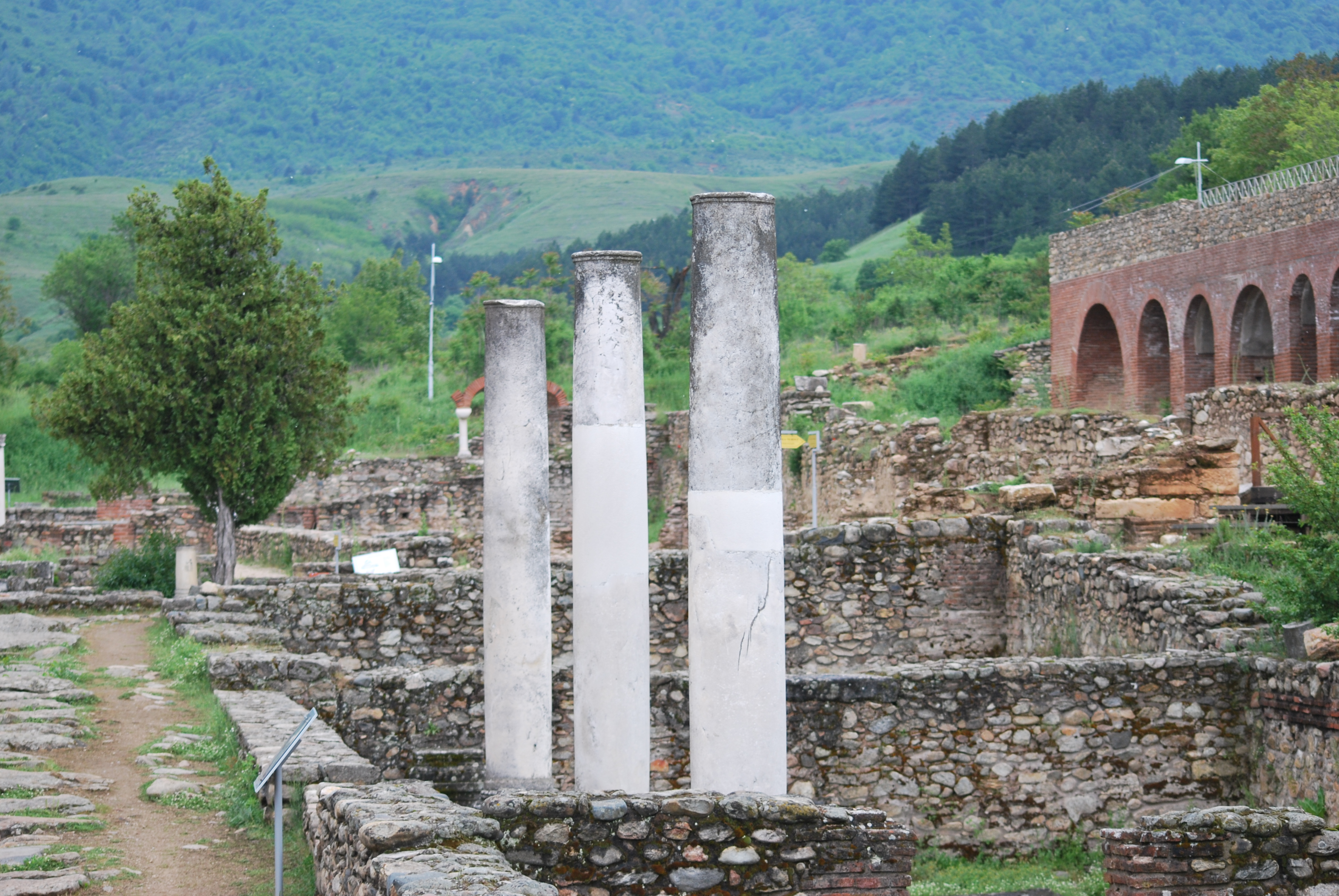 Heraclea Lyncestis, Macedonia